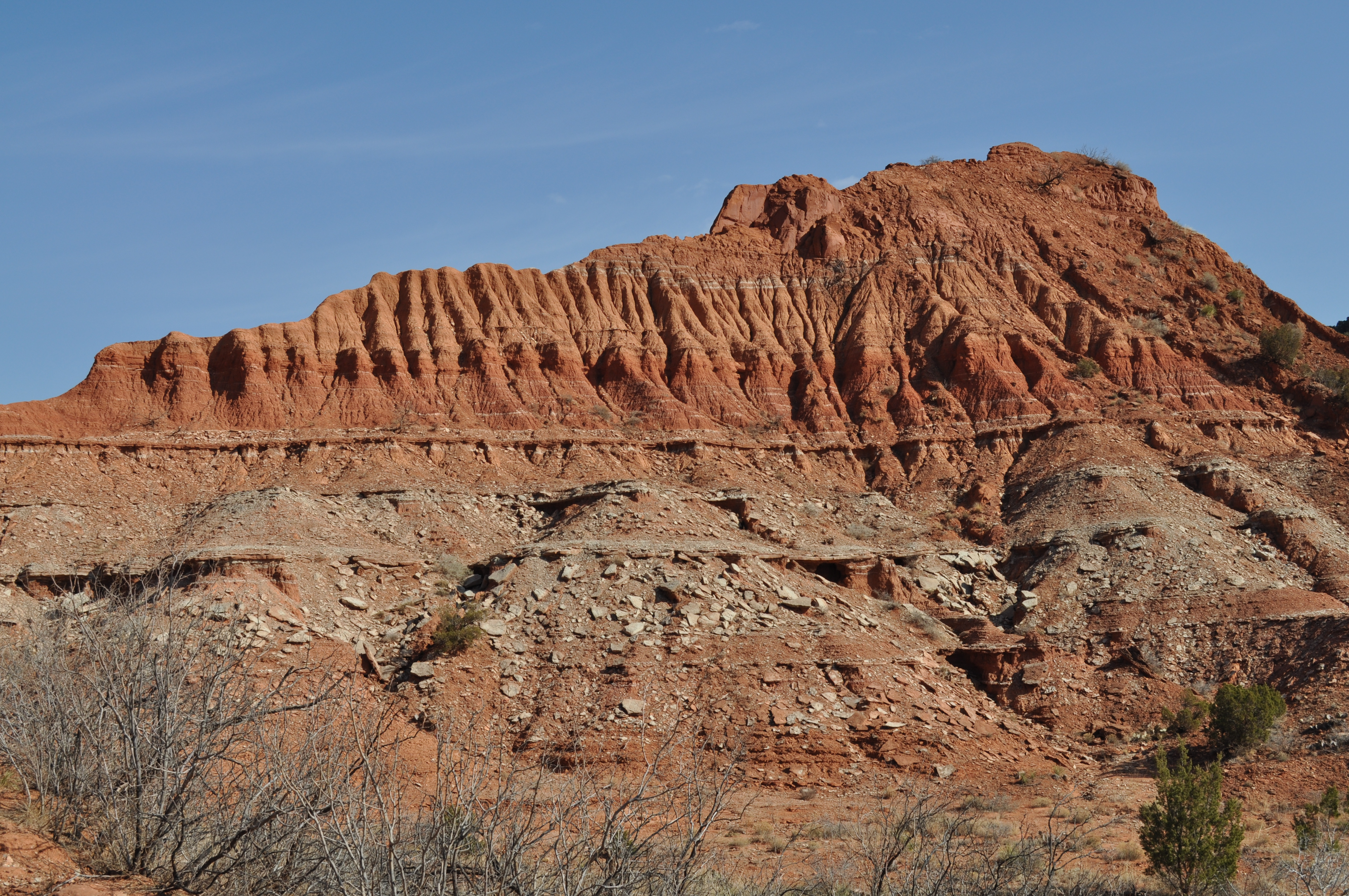 Along the Canyon Loop Trail (Trail D) in Caprock Canyons State Park, Texas.